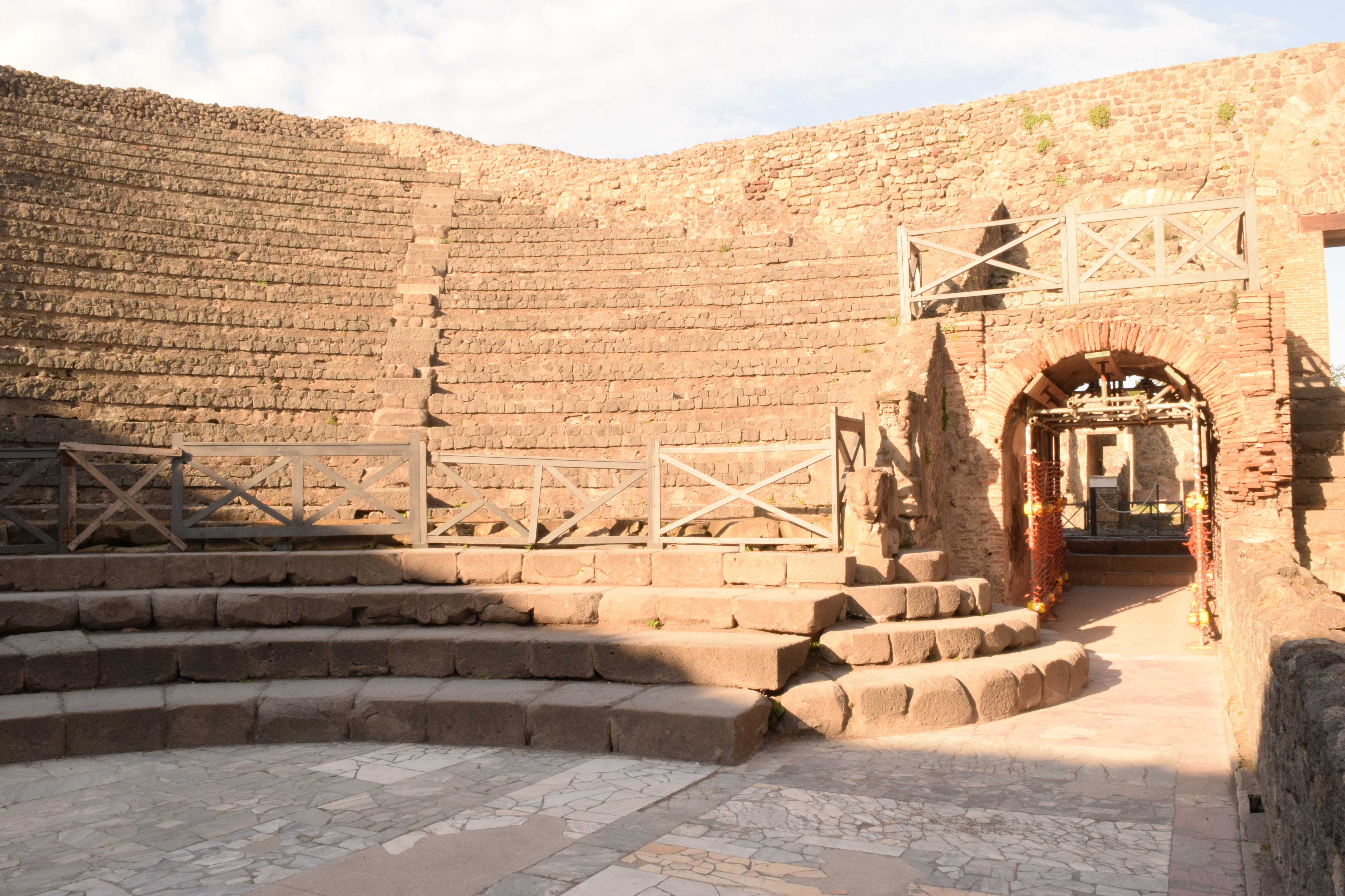 Entrance to the right of the stage at the Odeon, or small theatre, in Pompeii.